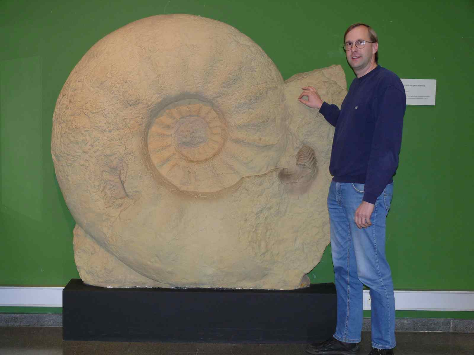 Parapuzosia seppenradensis, biggest known ammonite, diameter 1.8o m.